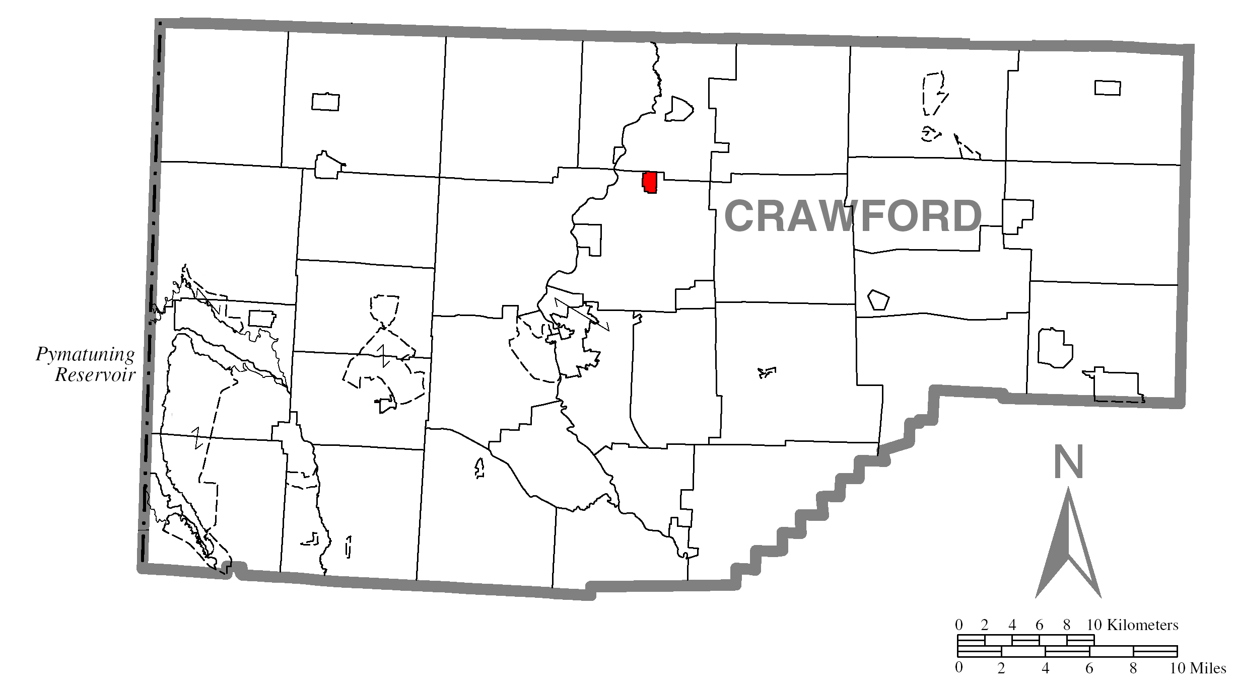 Map of Crawford County higlighting Woodcock.